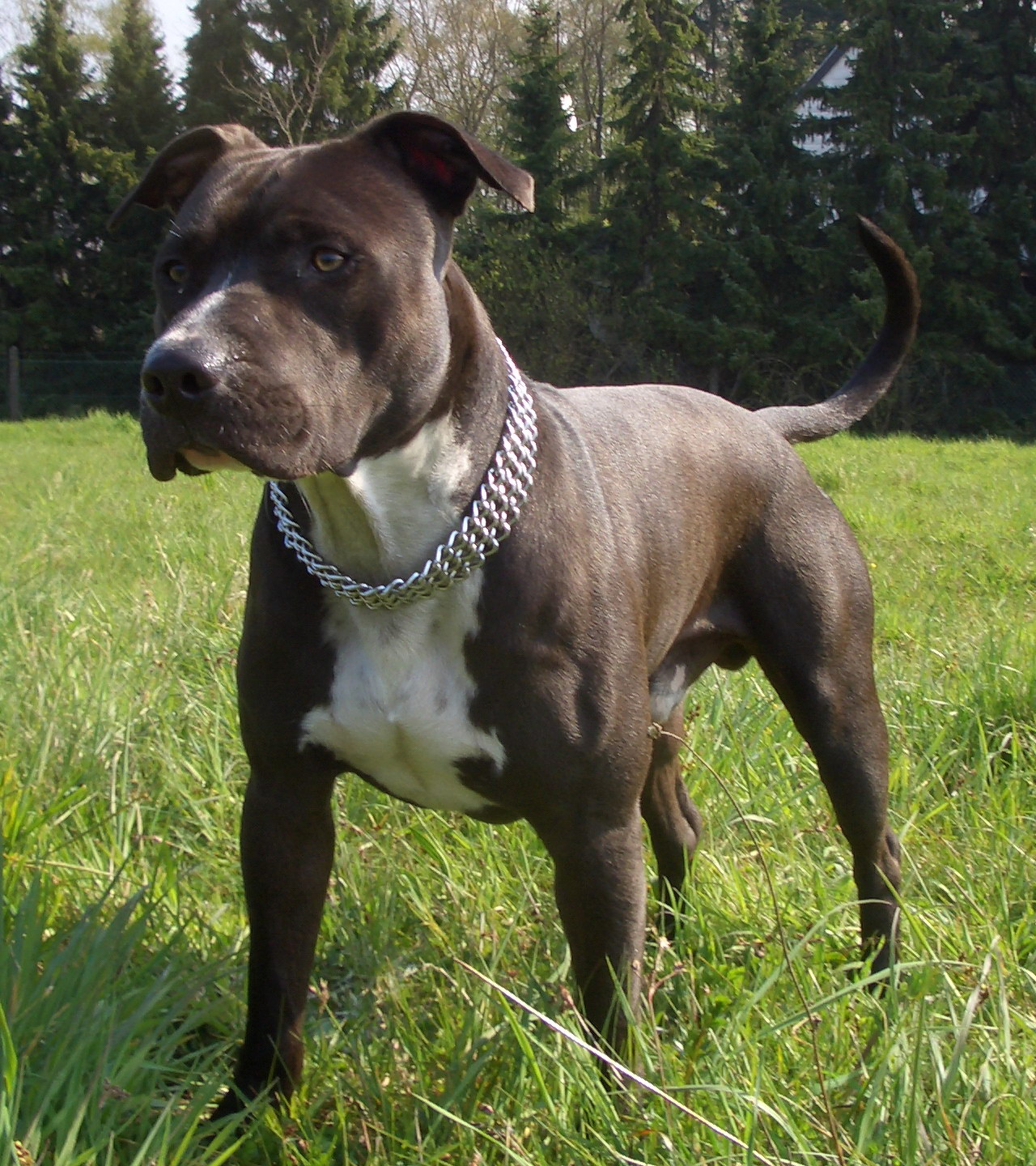 American Staffordshire Terrier